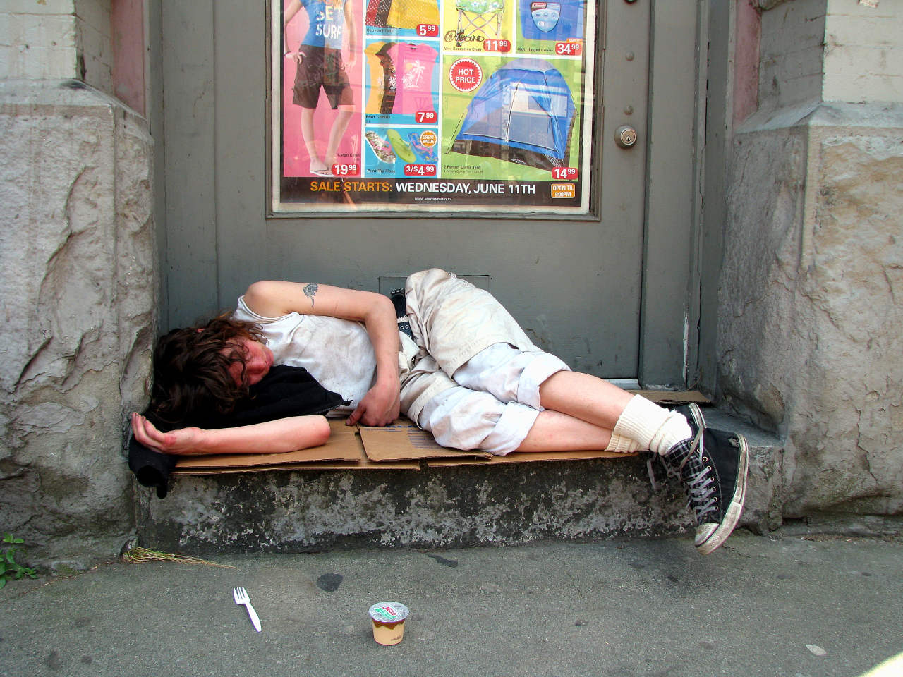 Public sleeper in Vancouver BC Canada; in the downtown eastside area.